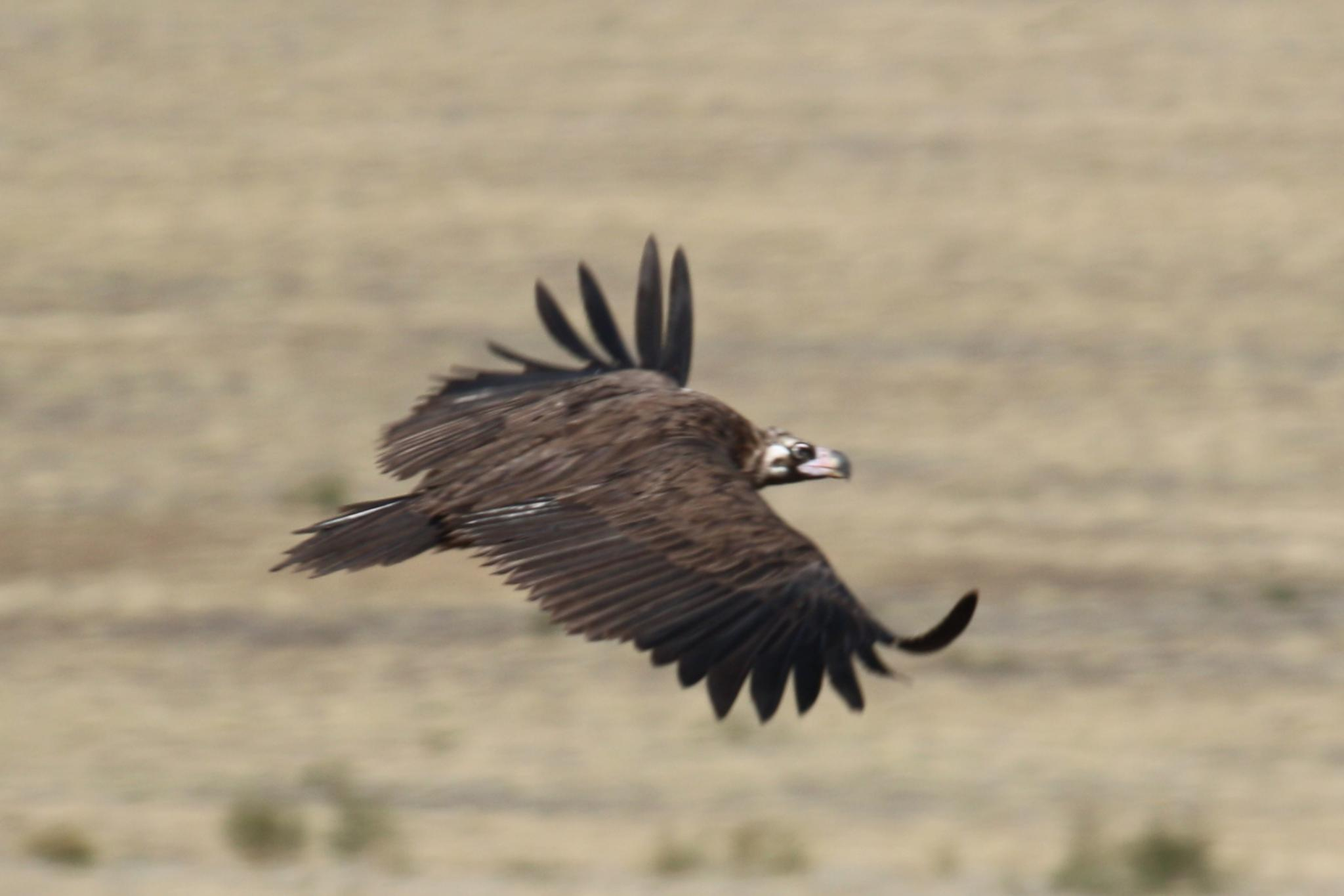 This was one of a dozen birds waiting to feed on a disgusting bag of offal dumped in a roadside ditch. Mongolia.